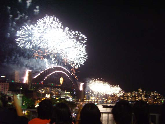 Midnight fireworks in Sydney for New Year's Eve 2006